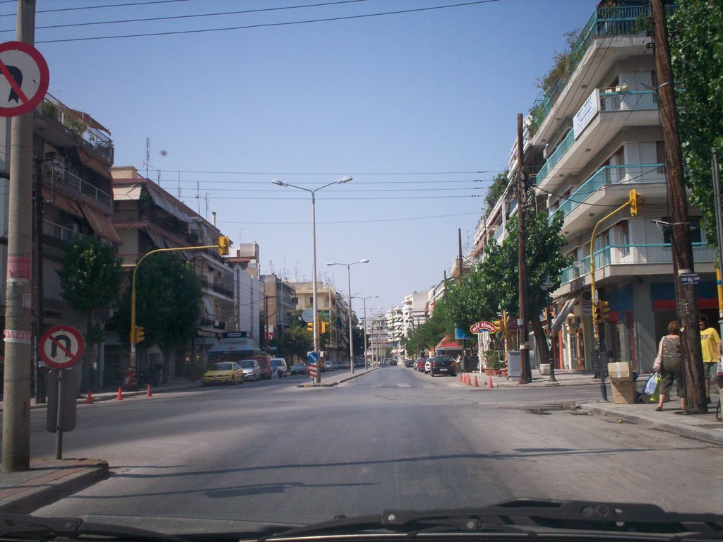 Template:En1=